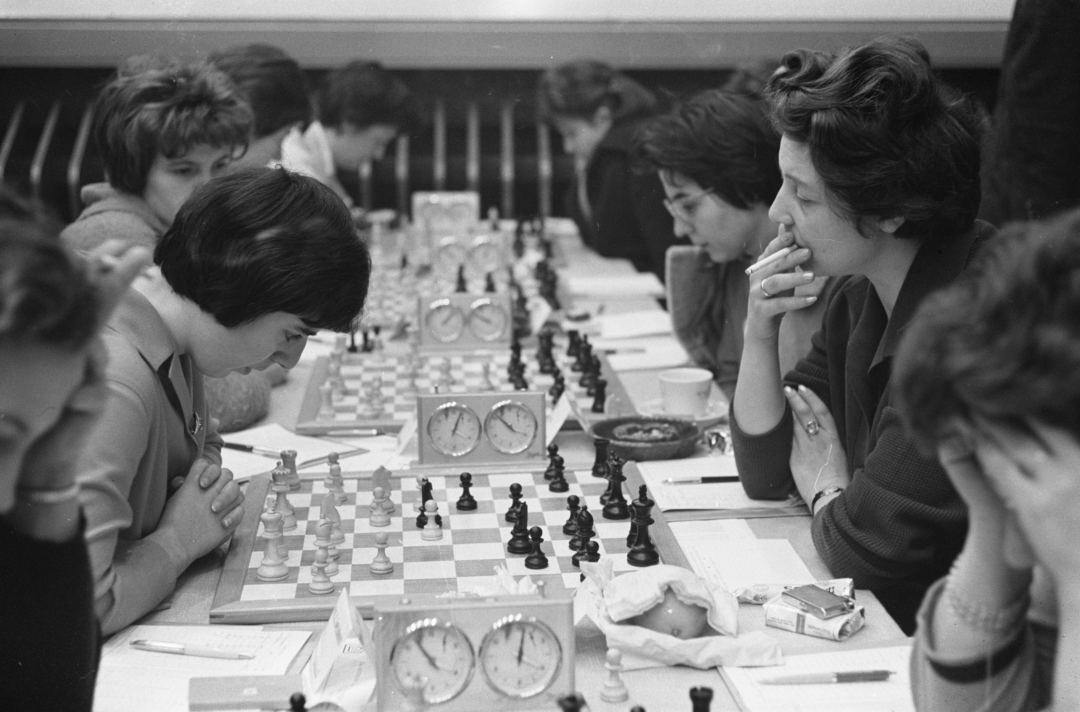 Nona Gaprindashvili (left, bending over, USSR/Georgia) vs. Corrie Vreeken-Bouwman (the Netherlands)-smoking, Hoogovens tournament (10 women), 21 January 1963